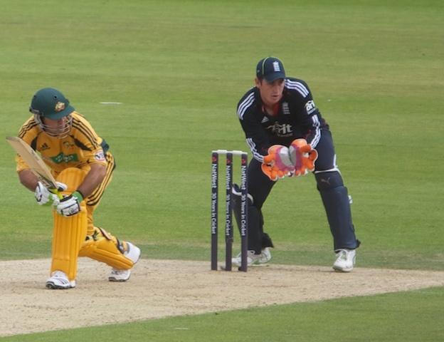 England vs Australia ODI - Oval 2010. Craig Kieswetter is keeping wicket while Ricky Ponting bats.